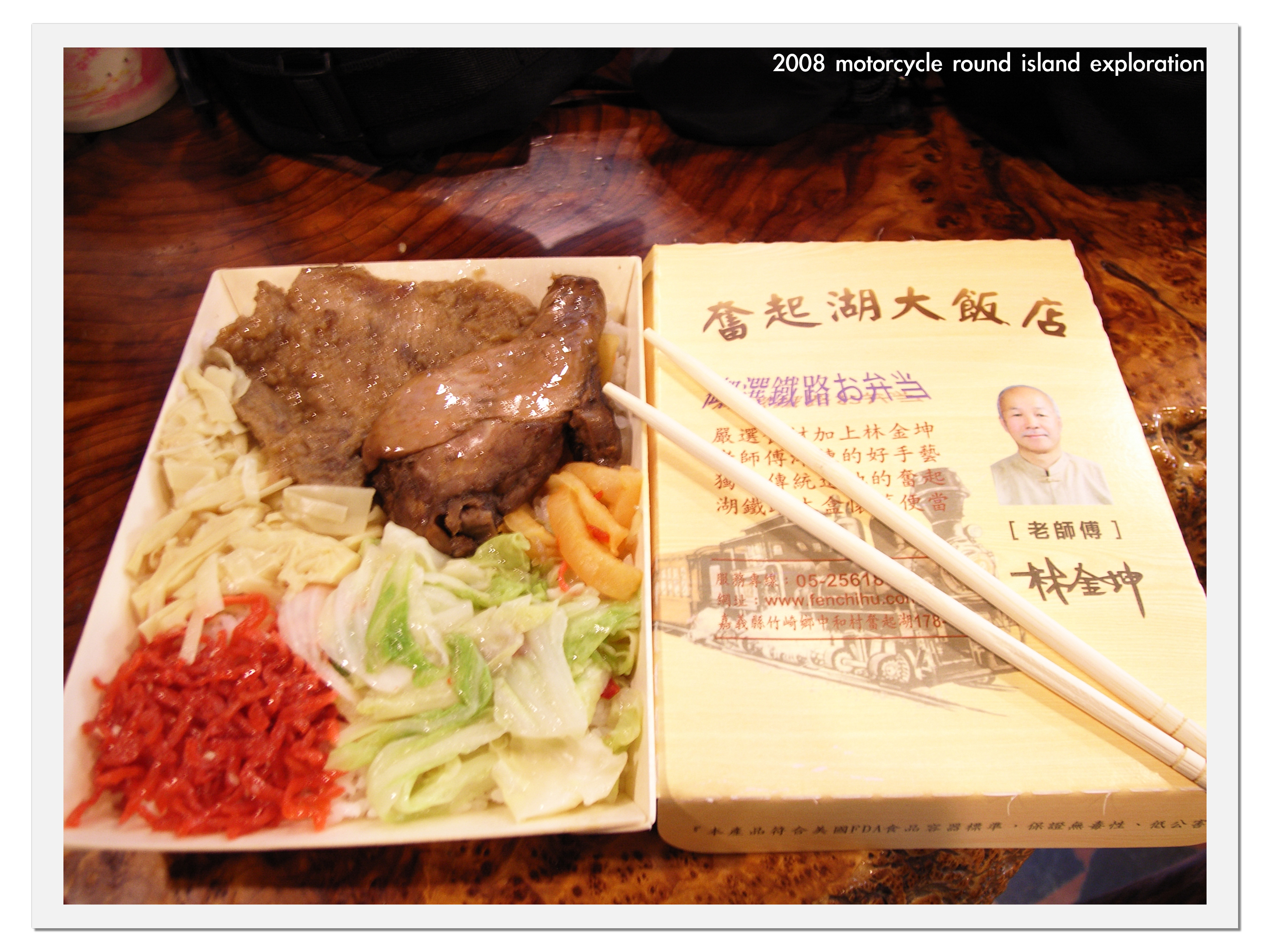 被騙的100元 / 感覺很像是花100元買7-11的便當 A railway lunch box Fencihu lunch box (奮起湖便當 fencihu biendang)